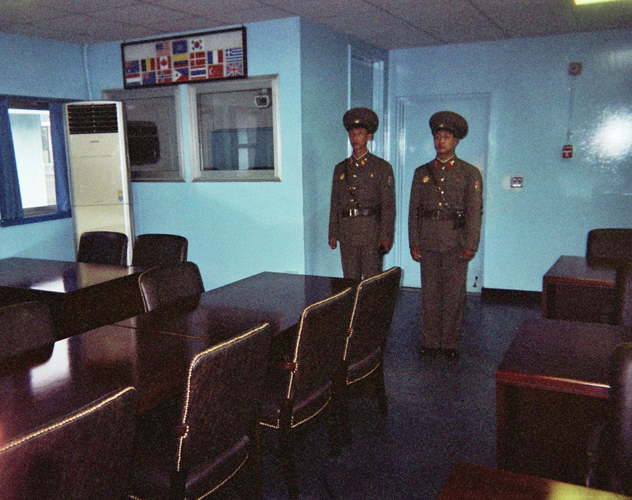 DPRK-soldiers at the South Korean side at Panmunjom